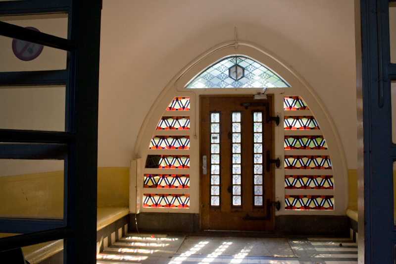 Dutch Architecture: School of Amsterdam 1920 Building Wageningen Architect: C.J.Blaauw